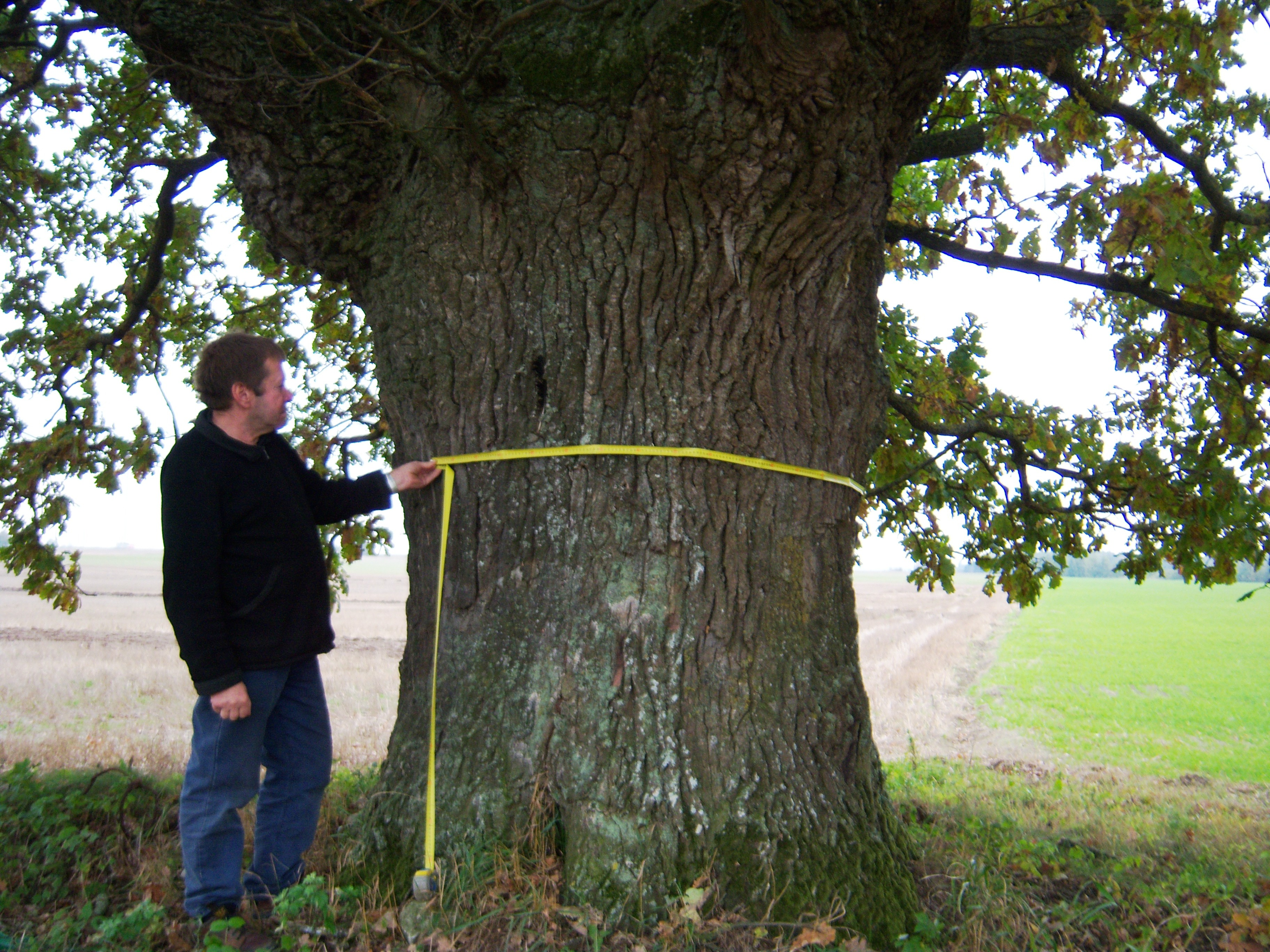 Oak near Uogintai, trunk, Kaišiadorys District, Lithuania